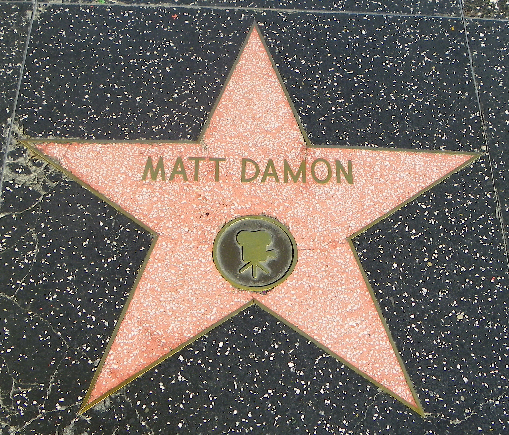 Matt Damon's star on the Hollywood Walk of Fame in Hollywood, Los Angeles, California